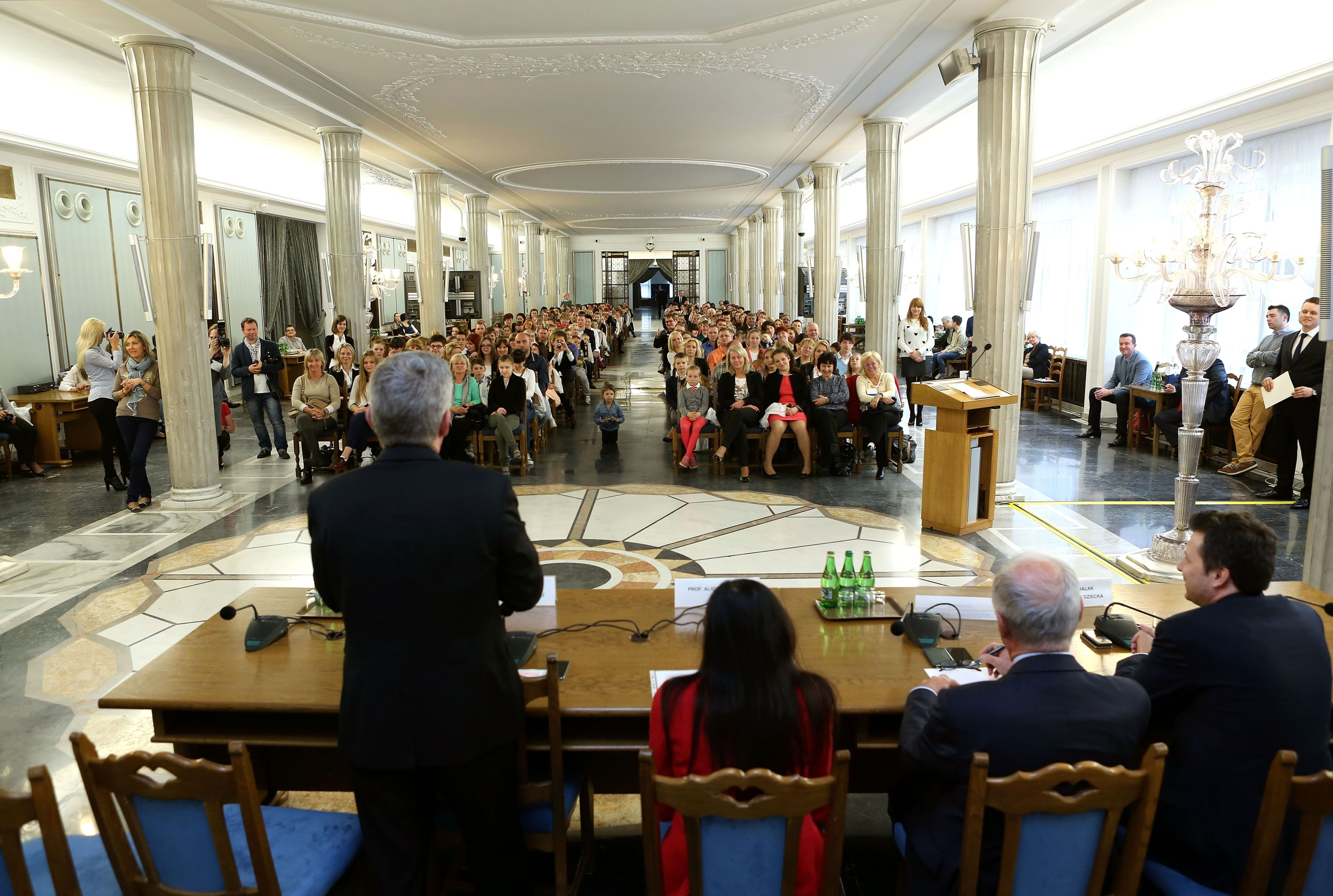 Announcing the results of the contest "My Poland in 2050". Column Hall in the Polish Sejm